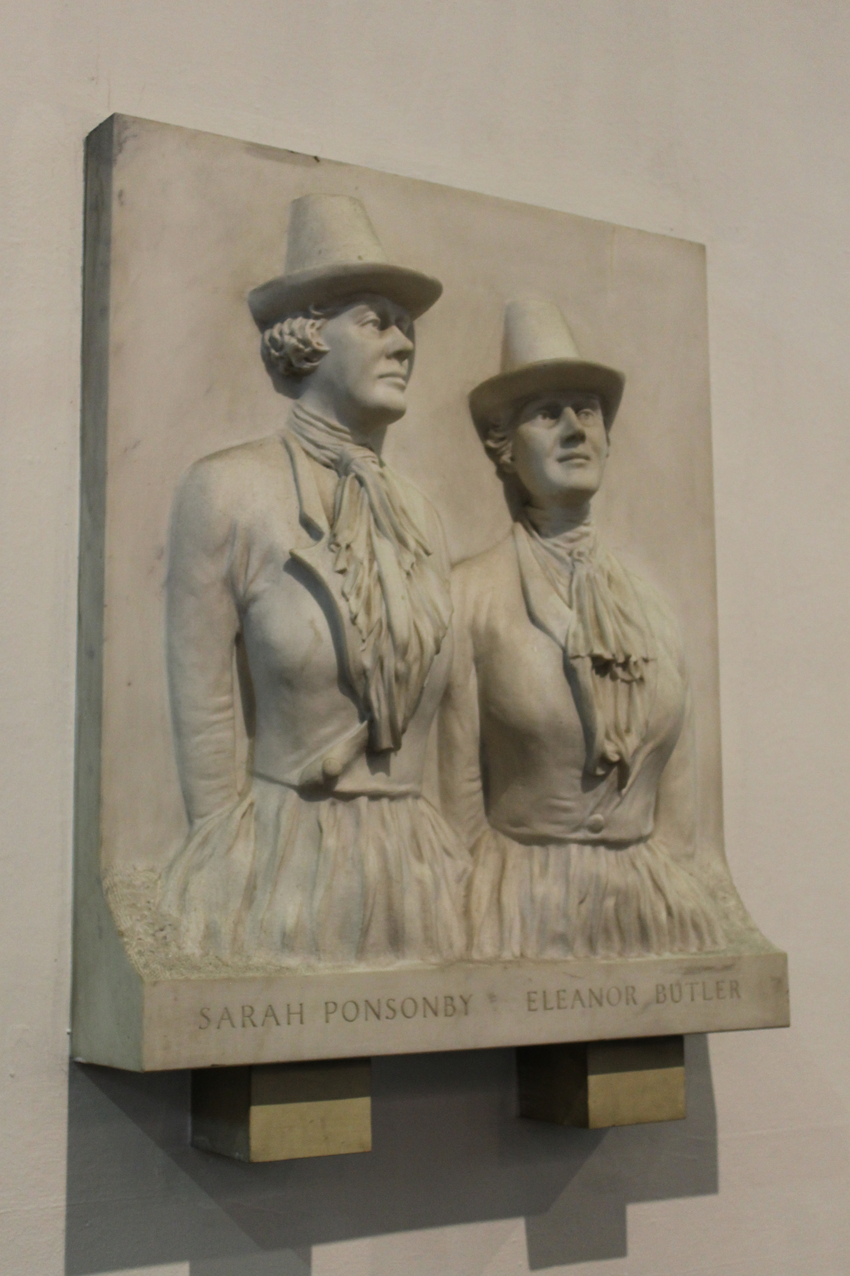 St. Collen's Parish Church, Llangollen, Denbighshire. Eleanor Butler and Sarah Ponsonby.